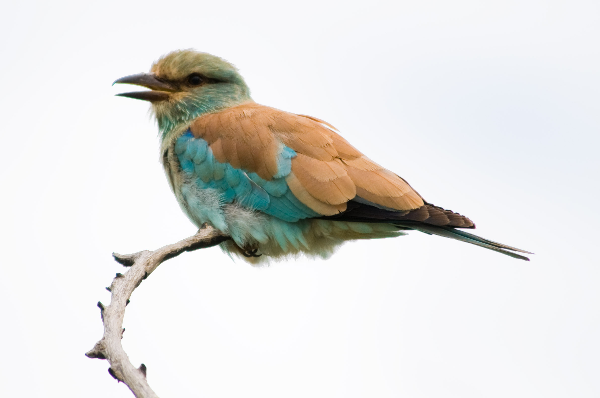 European roller near Skukuza, Kruger National Park, South Africa